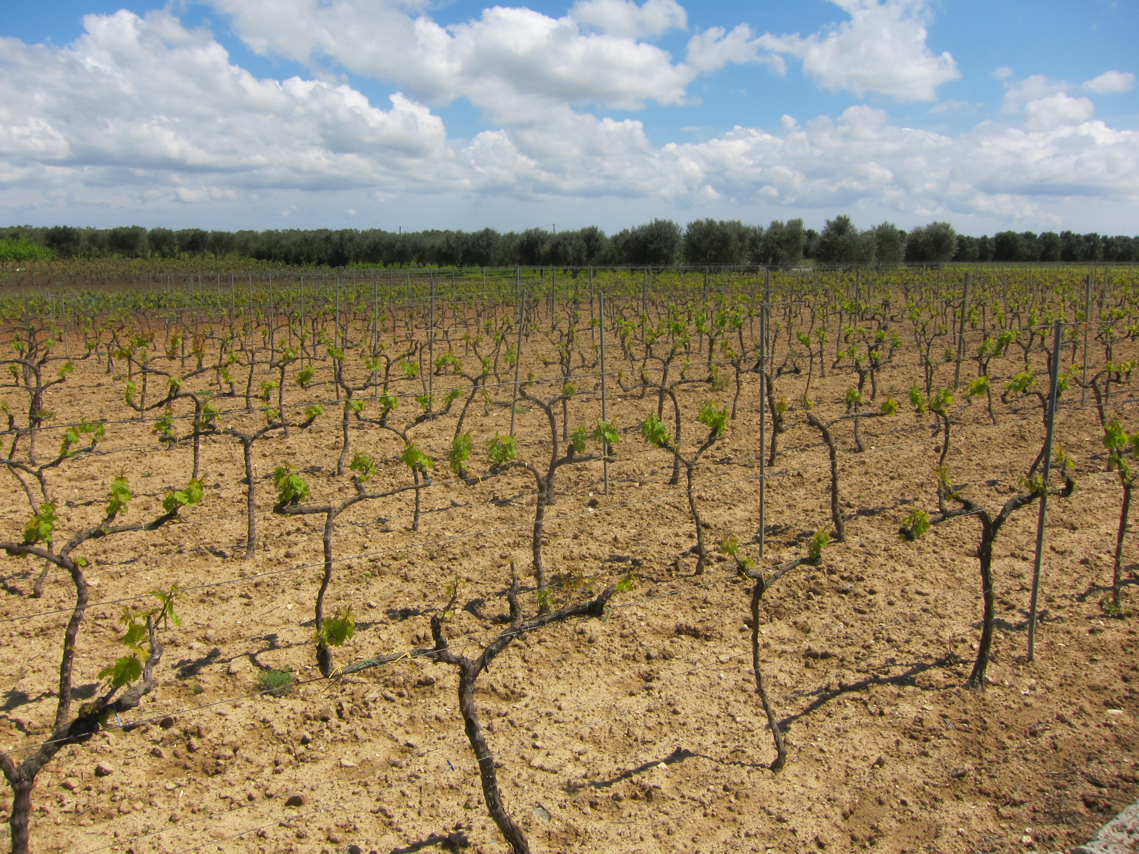 Negroamaro Grapes Growing